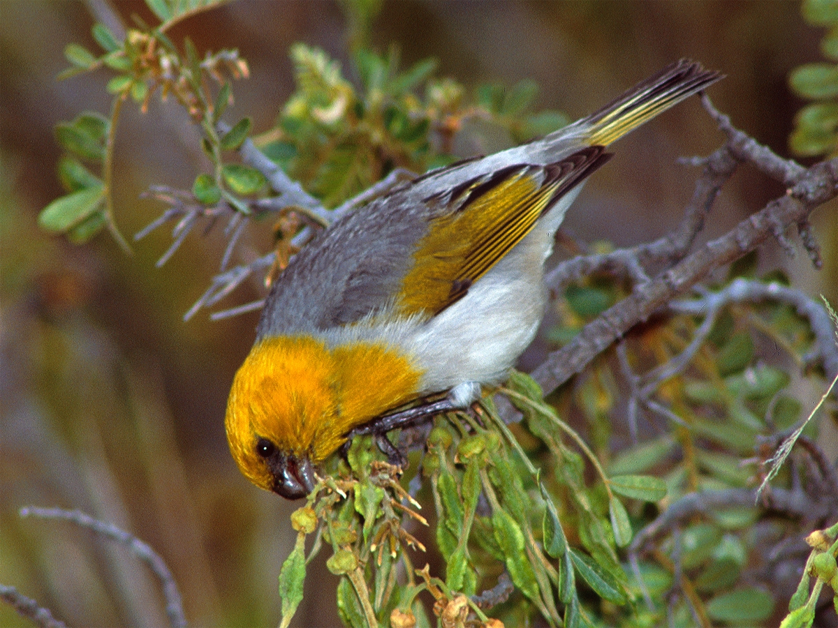 Loxioides bailleui, Hawaii, USA, 2012